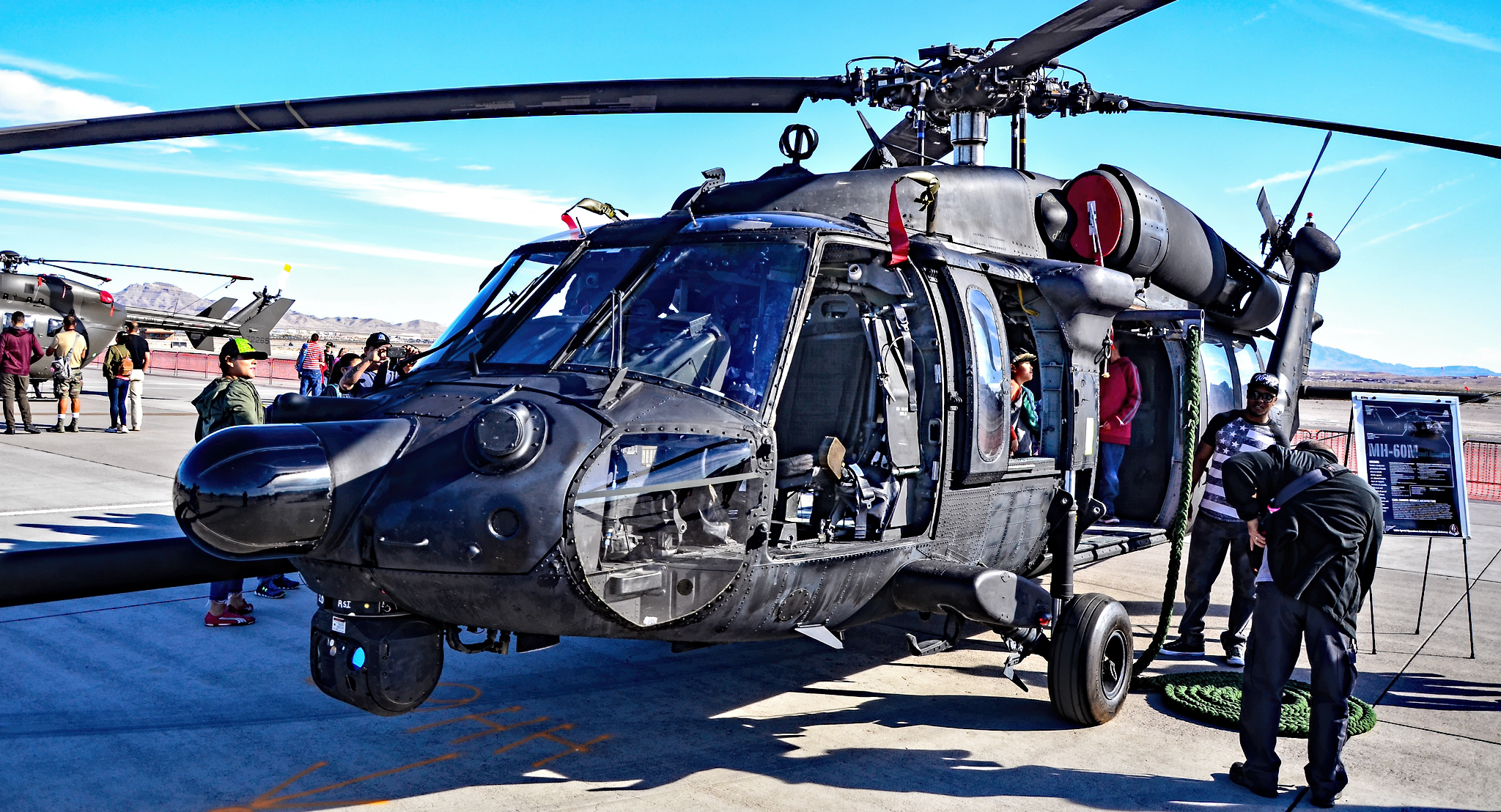 Aviation Nation 2017 Las Vegas - Nellis AFB (LSV / KLSV) USA - Nevada, November 11, 2017 Photo: TDelCoro